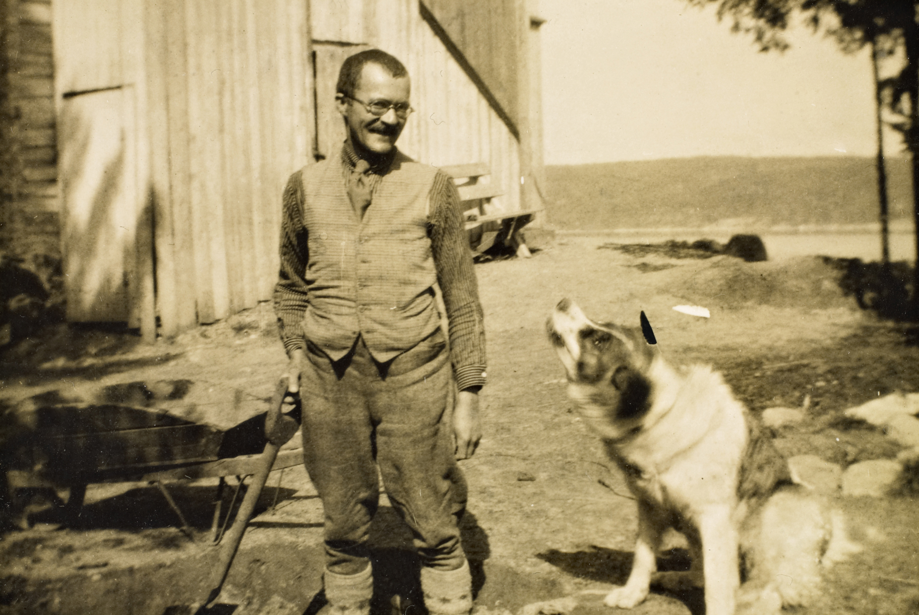 Tittel / Title: Portrett av Arnulf Øverland (1889-1968) Dato / Date: ca 1930 Fotograf / Photographer: ukjent / unknown Eier / Owner Institution: Nasjonalbiblioteket / National Library of Norway Lenke / Link: Bildesignatur / Image Number: blds_01054